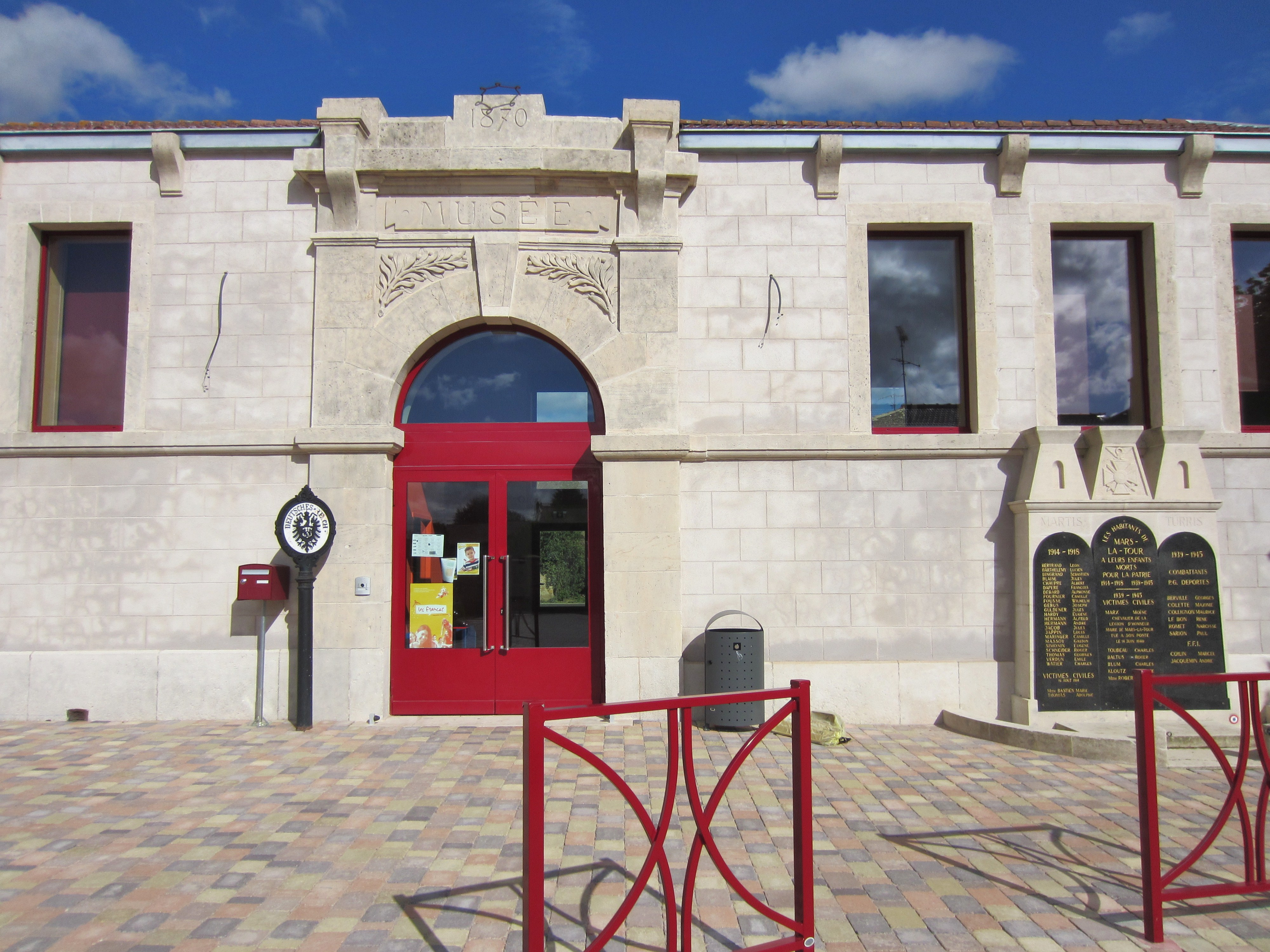 Description musee Mars la Tour Date13 September 2011Sourcemon appareil photoAuthorAimelaimePermission (Reusing this file) } musee Mars la Tour